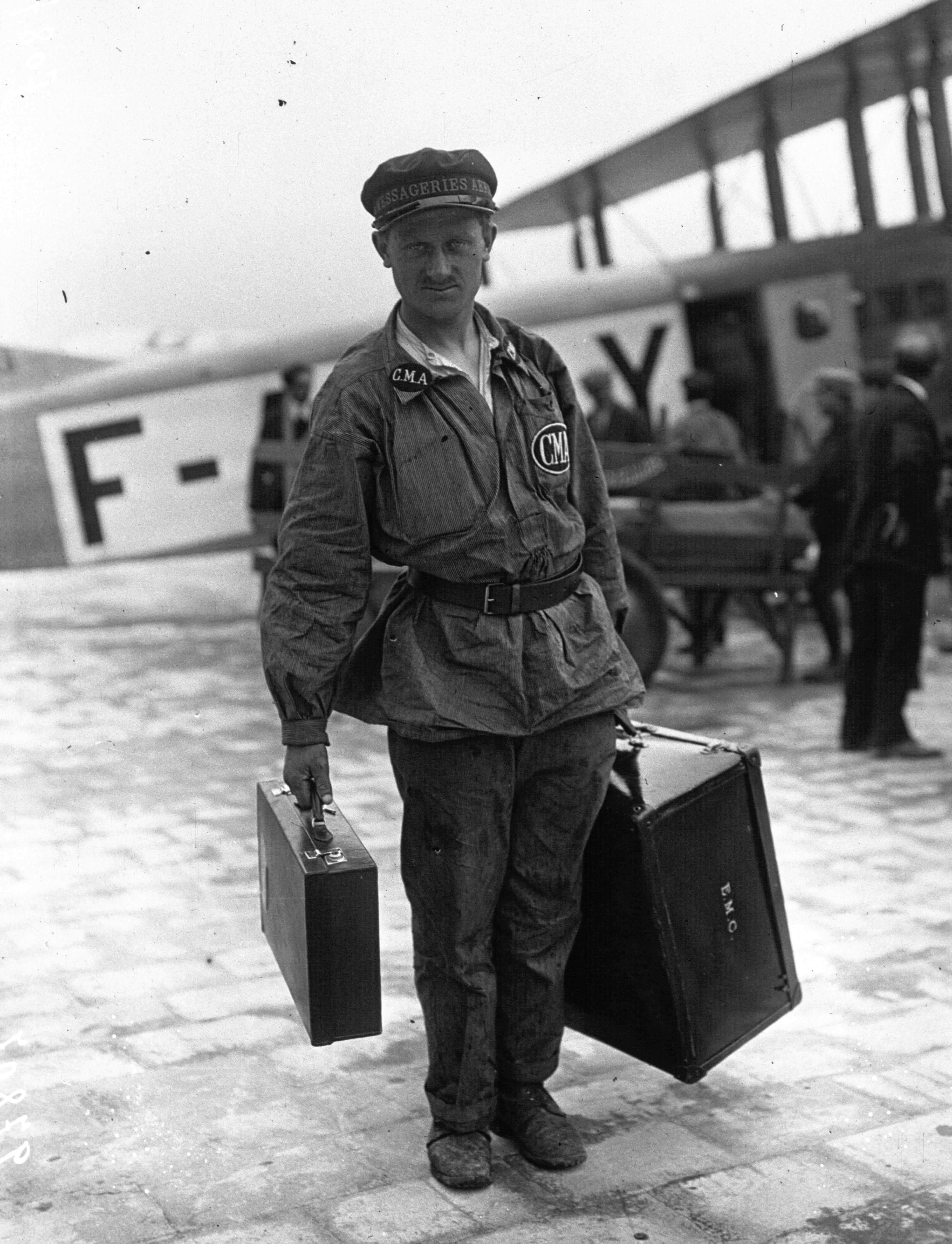 A baggage handler from the Compagnie des Messageries Aériennes at Le Bourget Airport in 1922.